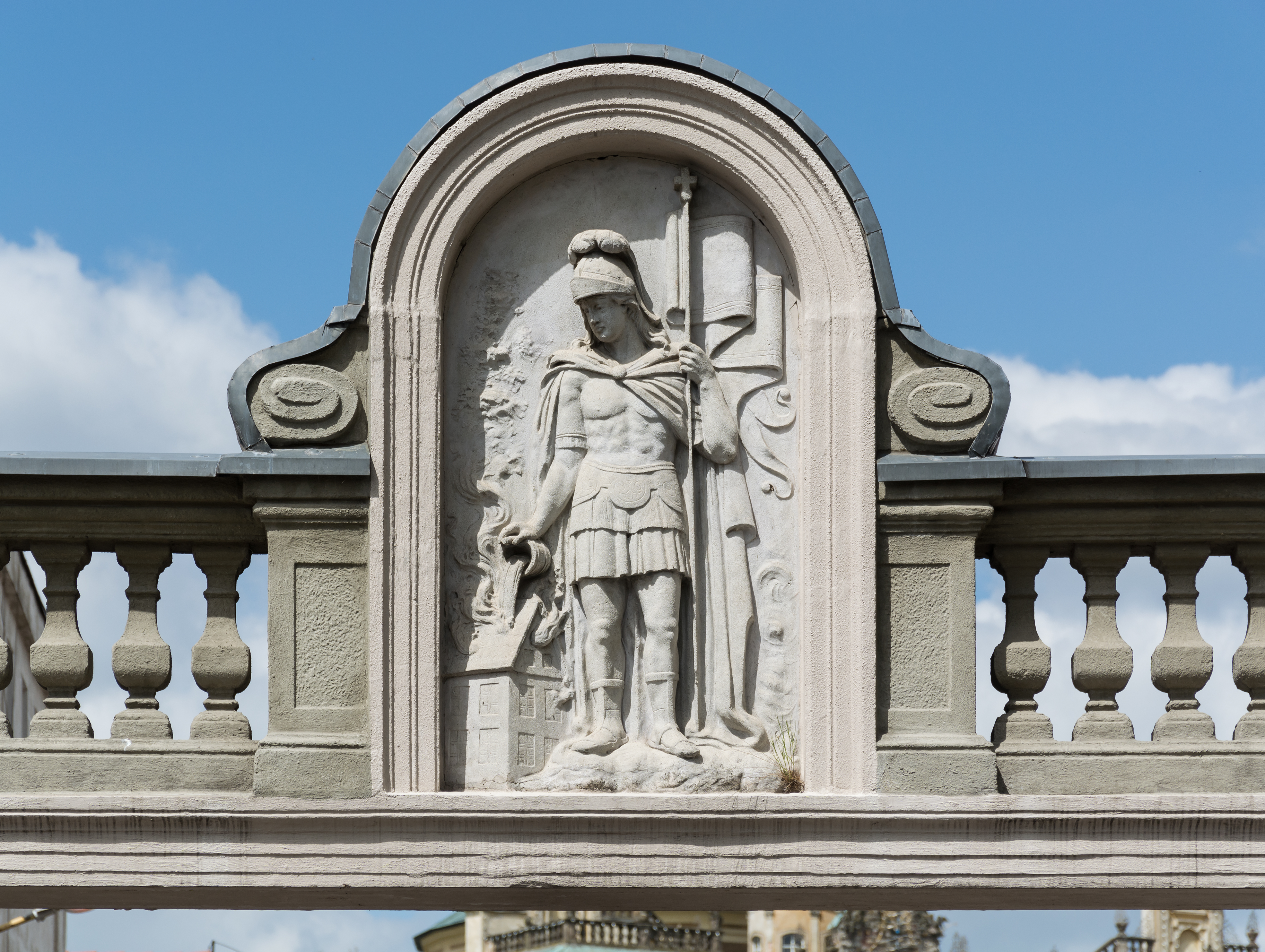 Gihon Gate in Wambierzyce, Saint Florian relief